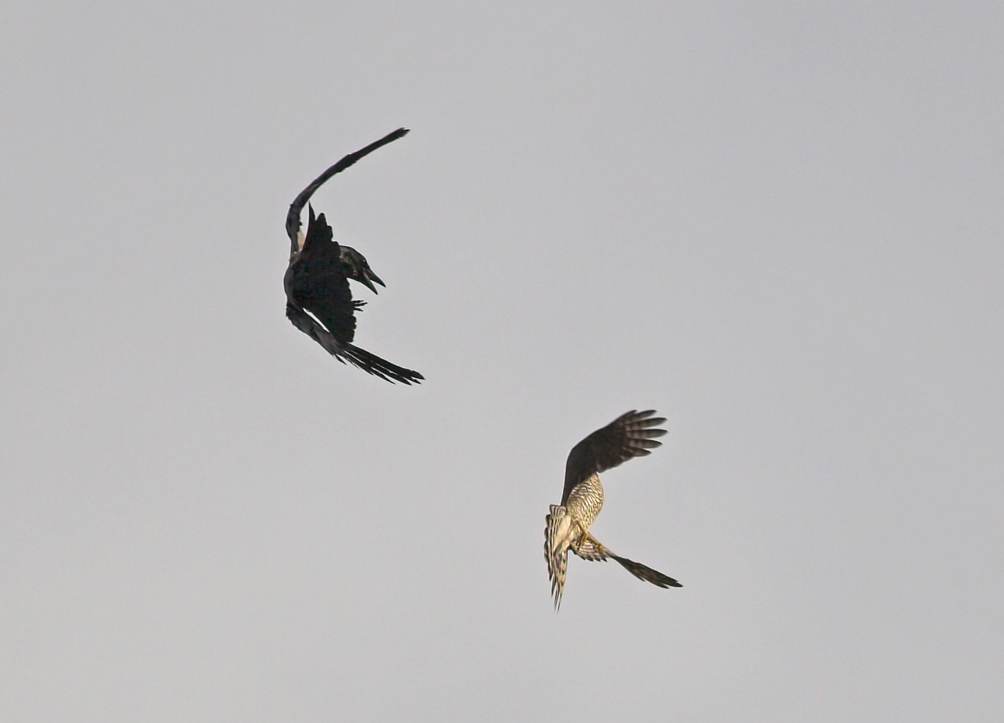 Sparrowhawk in duel with crow. Photo by Thermos.